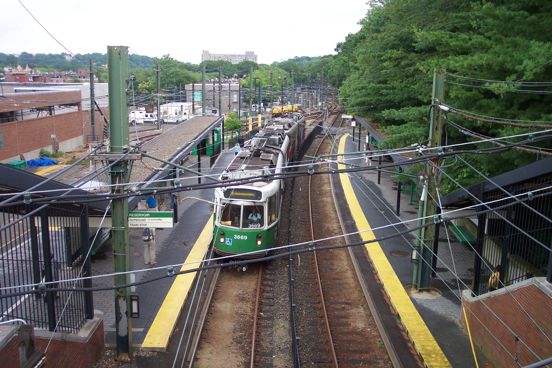 An outbound train at Reservoir station on the MBTA Green Line "C" Branch